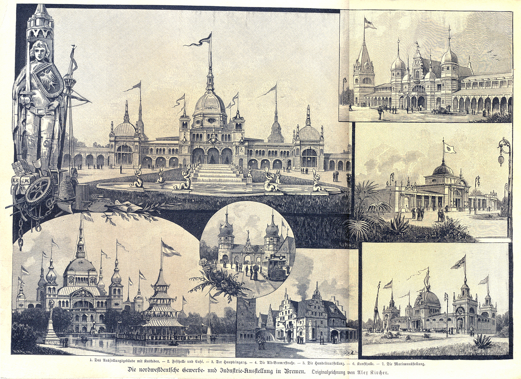 Drawing by Alex Kirchner showing different buildings of the “Nordwestdeutsche Gewerbe- und Industrieausstellung“ (the Northwest German Craft and Industry Fair) 1890 in Bremen.